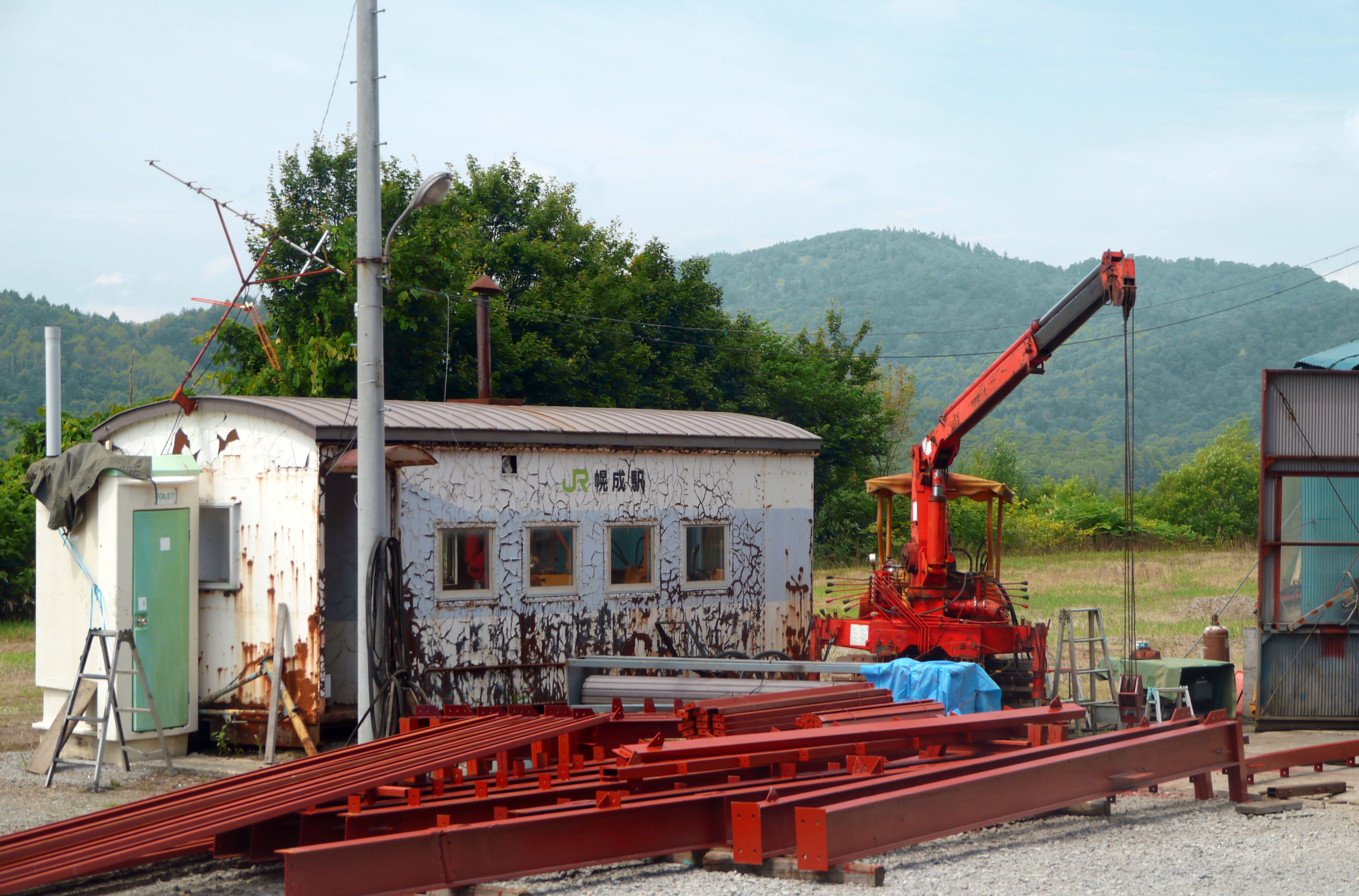 The remains of Horonari Station of the Shinmei Line in Hokkaido, Japan